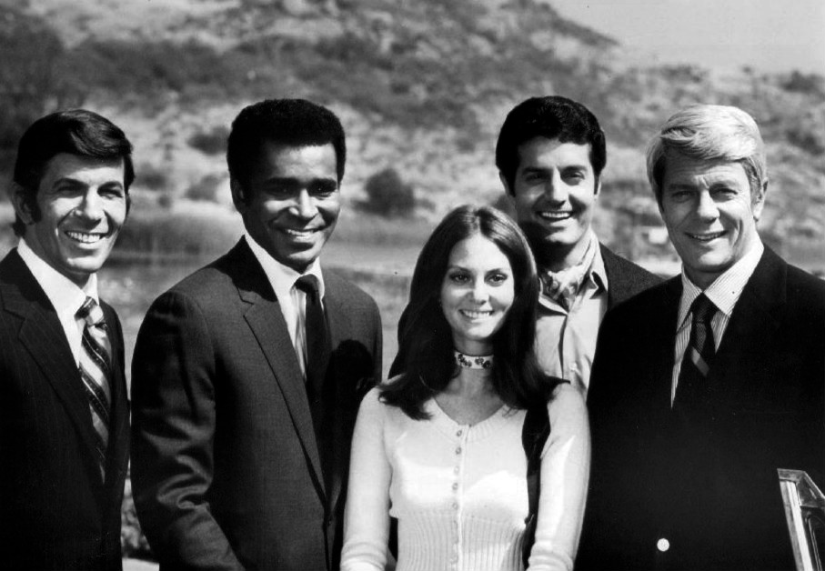 Cast photo from the television program Mission: Impossible. This is the cast for its fifth season, beginning in 1970. From left: Leonard Nimoy, Greg Morris, Lesley Anne Warren, Peter Lupus and Peter Graves.